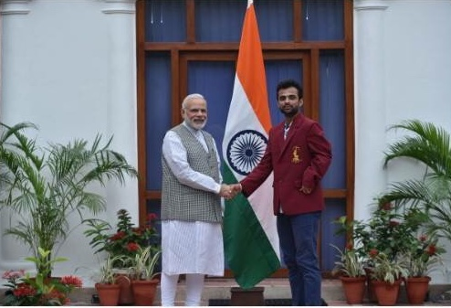 Warm wishes from Shri Narendra Modi after awarded with ARJUNA AWARD